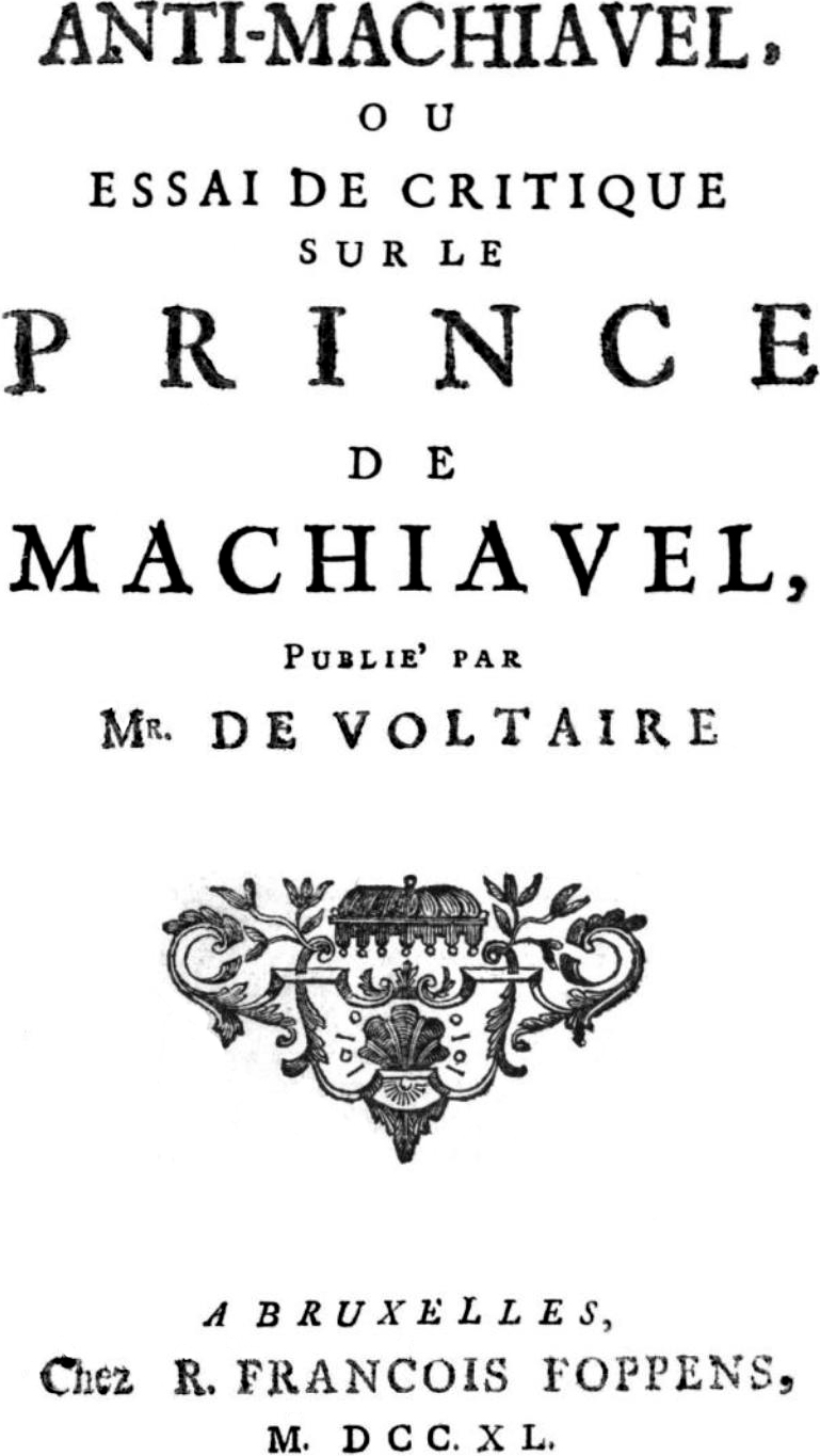 Title page from Anti-Machiavel (1740) by Frederick the Great (1712-1786)